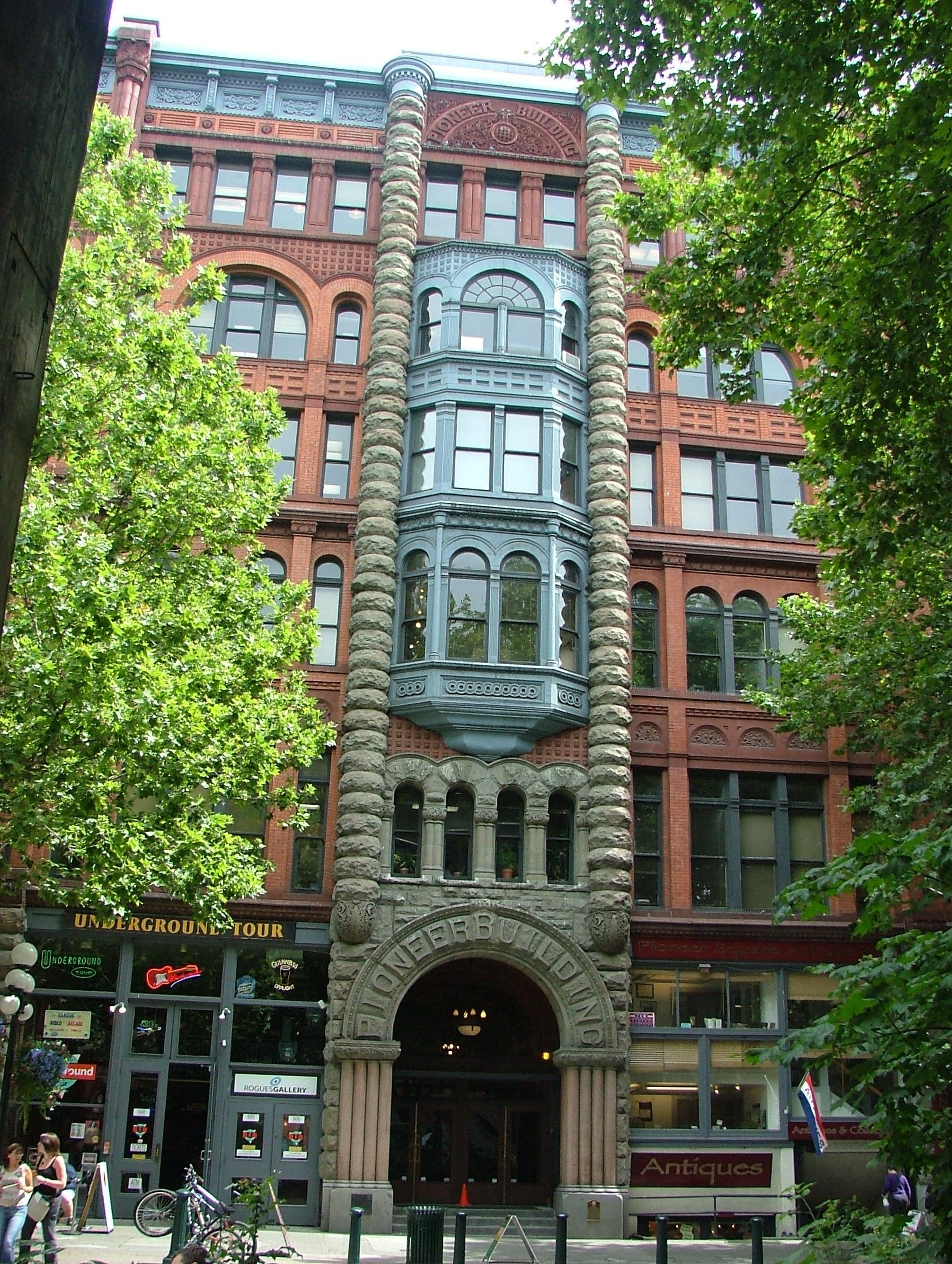 Pioneer Building, Pioneer Square, Seattle, Washington. Along with the nearby Pergola and Totem Pole, this is on the National Register of Historic Places (as is the surrounding neighborhood).